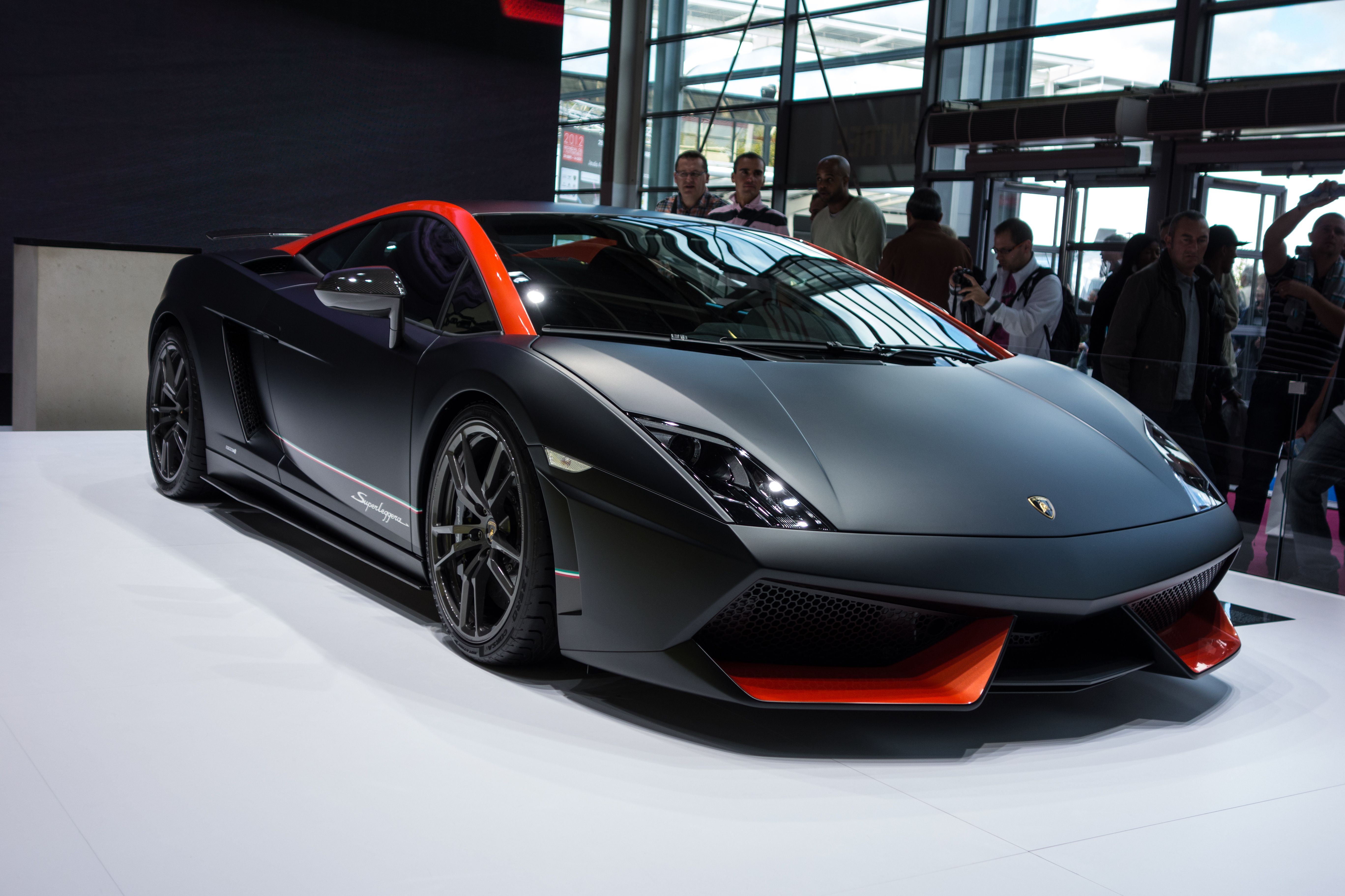 Mondial De L'automobile Paris 2012 | Paris Motor Show 2012